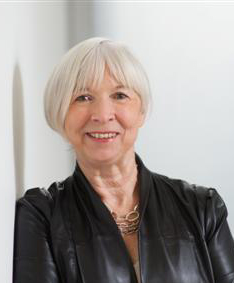 Portrait released in support of on-going improvement to Wikipedia articles, refer to